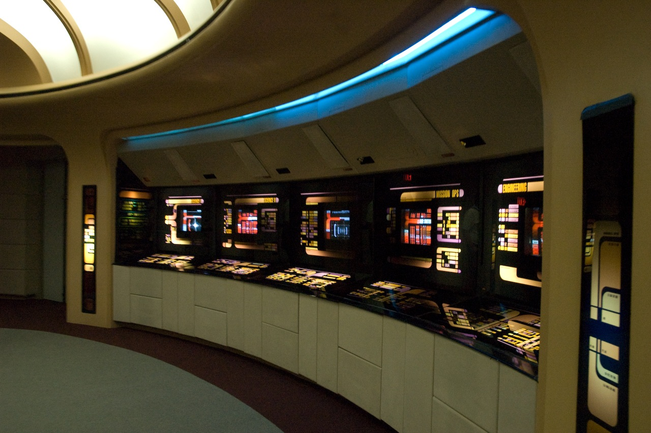 While in Las Vegas Chuck and I got a backstage tour of the Star Trek Experience at the Las Vegas Hilton for Technorama. Watch the Technorama site for an Audio and Video tour coming soon. It is stuff we can't show till after it closes on September 1st!